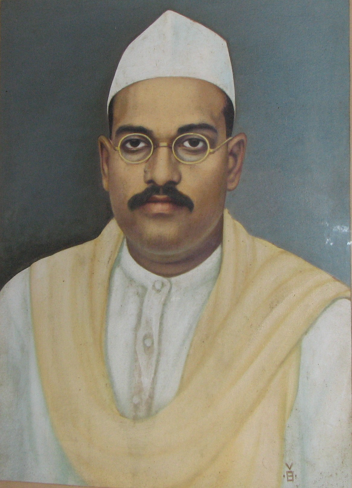 Portrait from Kamla Pati Khatri's Residence, Varanasi